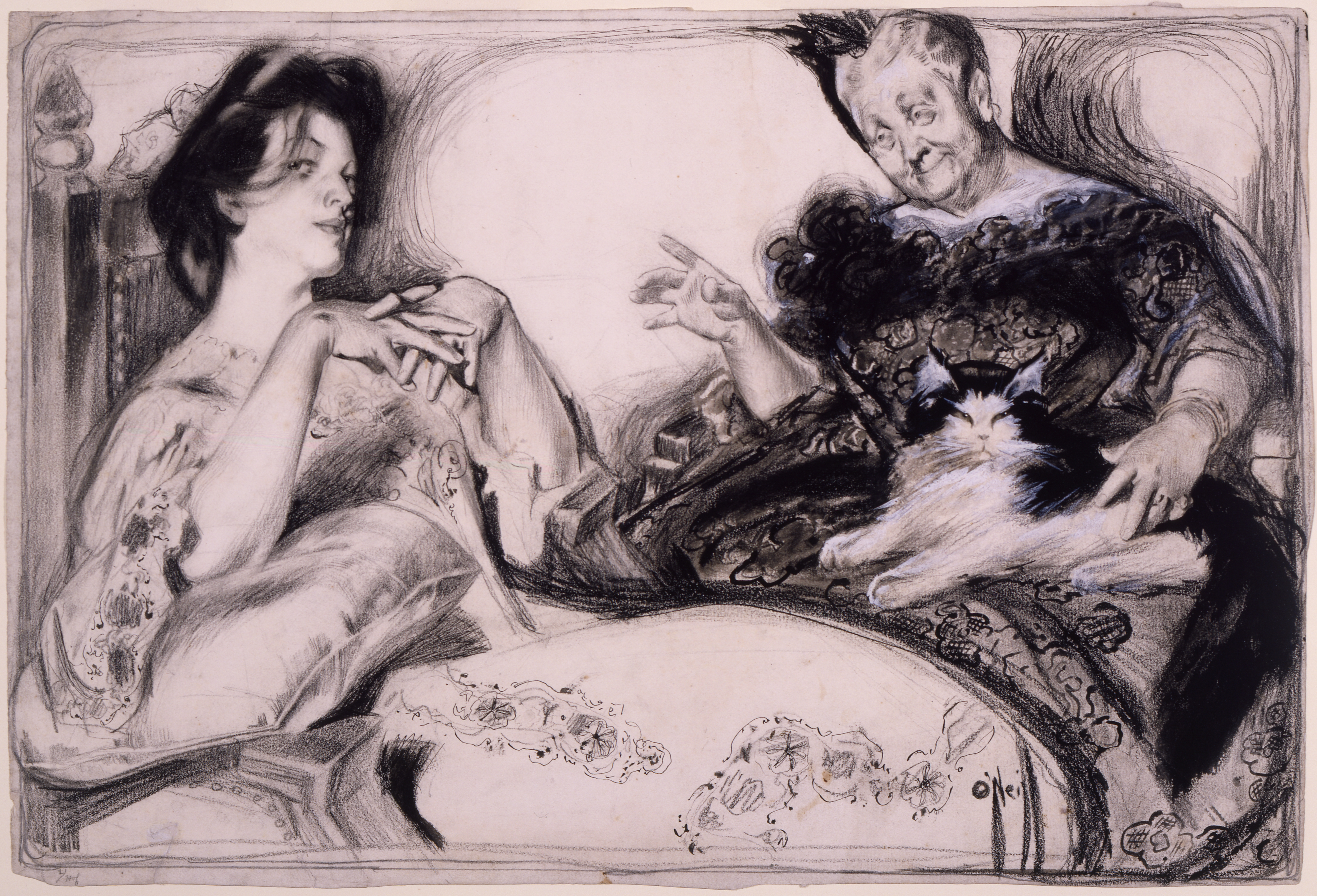 "Signs", a cartoon for Puck by American illustrator Rose O'Neill (1874-1944). 1 drawing: black crayon and black ink over pencil, with opaque white on off-white wove paper; 31.5 x 46.9 cm. (sheet). Caption: Ethel: "He acts this way. He gazes at me tenderly, is buoyant when I am near him, pines when I neglect him. Now, what does that signify?" Her mother: "That he's a mighty good actor, Ethel."